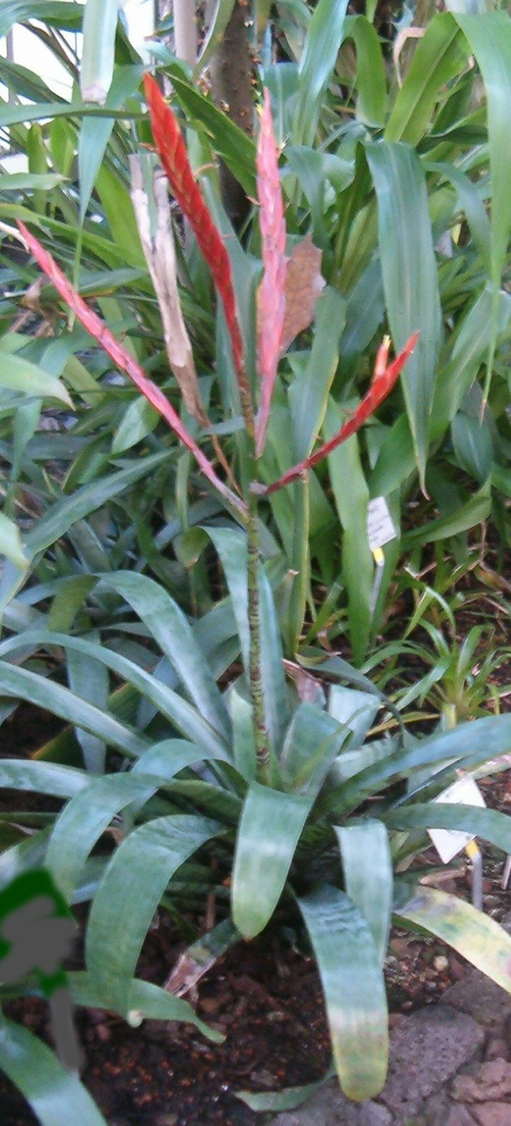 At Botanical Gardens Berlin-Dahlem Species Vriesea glutinosa